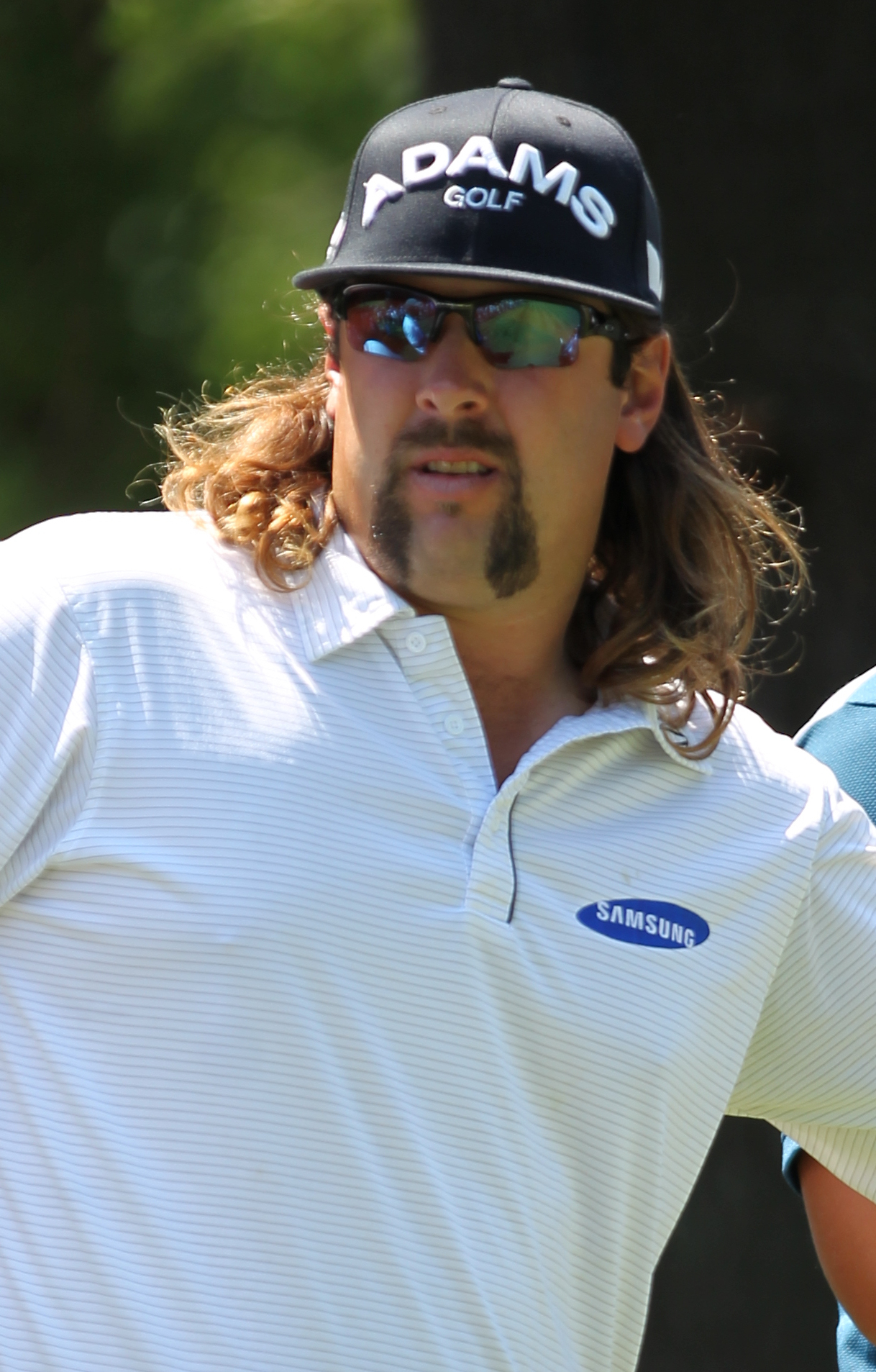 U.S. Open Golf Practice Round June 15, 2011